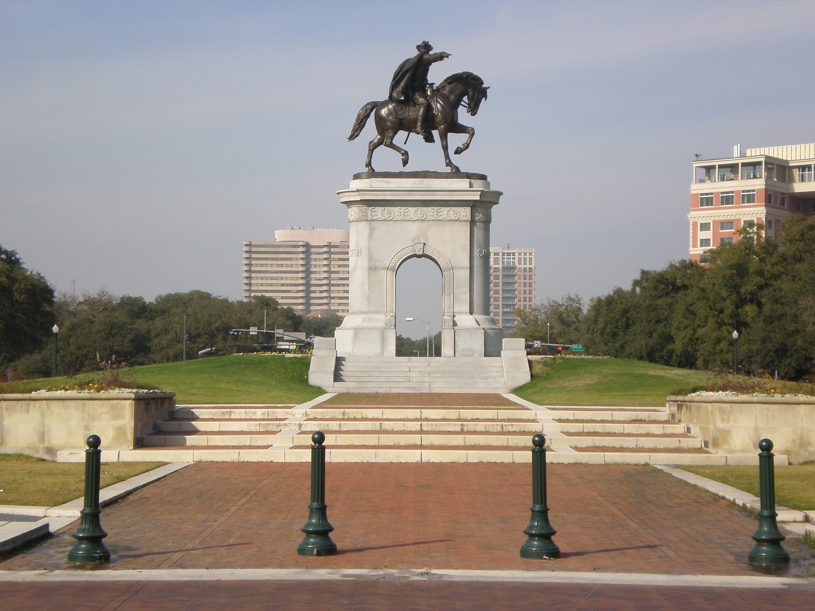 Sam Houston monument, Hermann Park, Houston, Texas in 2008